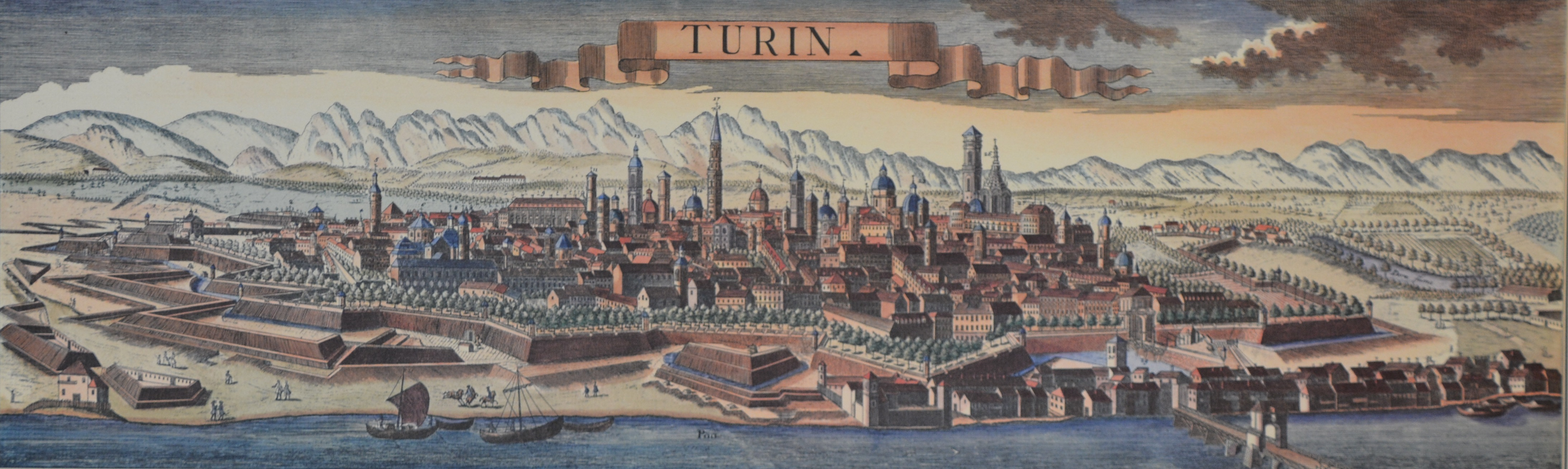 Turin 15th Century (?) by Friedrich Bernhard Werner (1690-1776)